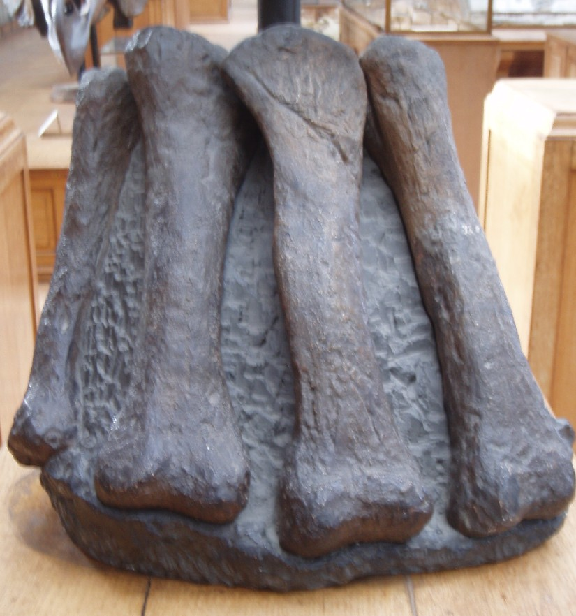 Foot bones of Lapparentosaurus (Bothriospondylus) madagascariensis